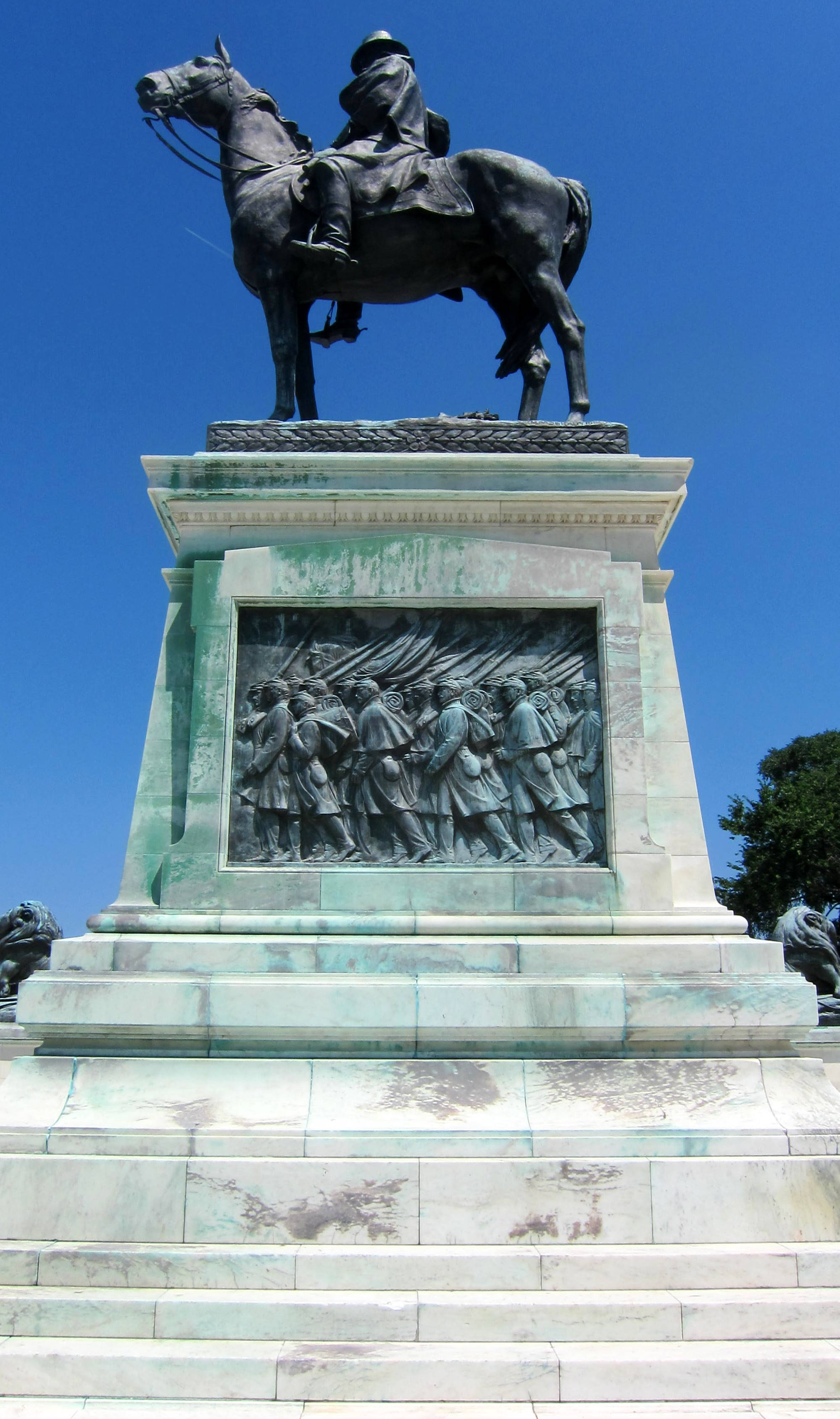 The Ulysses S. Grant Memorial, located in front of the United States Capitol, on the National Mall in Washington, D.C.